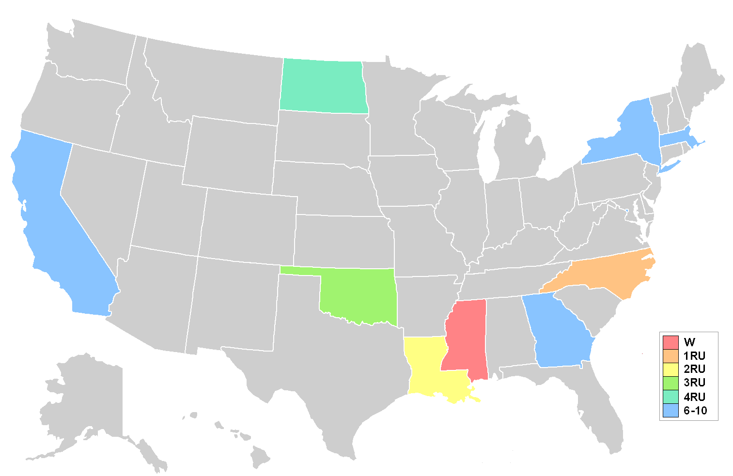 Map showing placements at the Miss Teen USA 1987 pageant. Key on graphic shows colour coding for break down of placements.